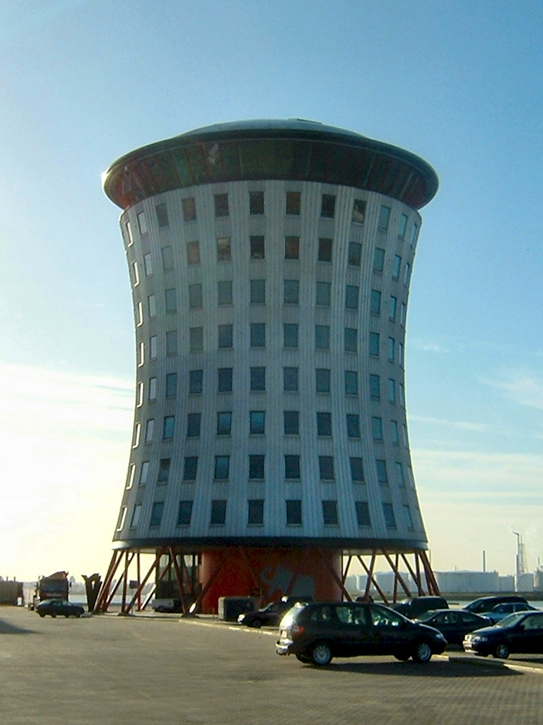 Mammoet office building in Schiedam, Netherlands Constructed in a hall, transported over water and delivered on-site, ready for use.